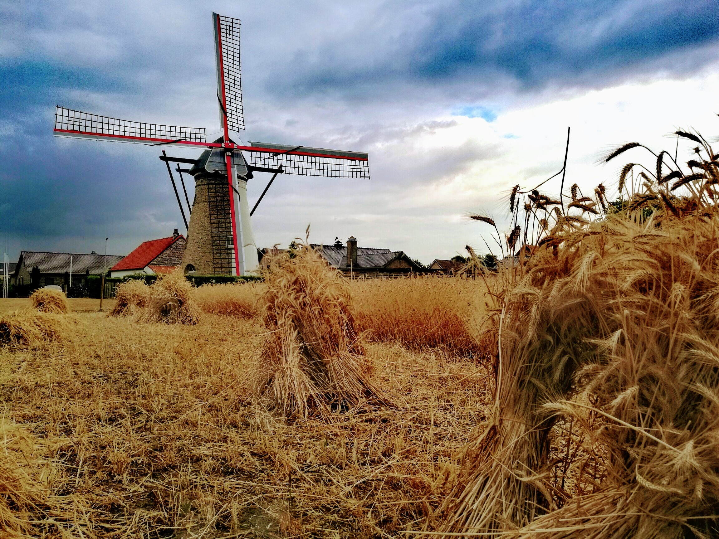 Windmill in Kaulille in Belgium